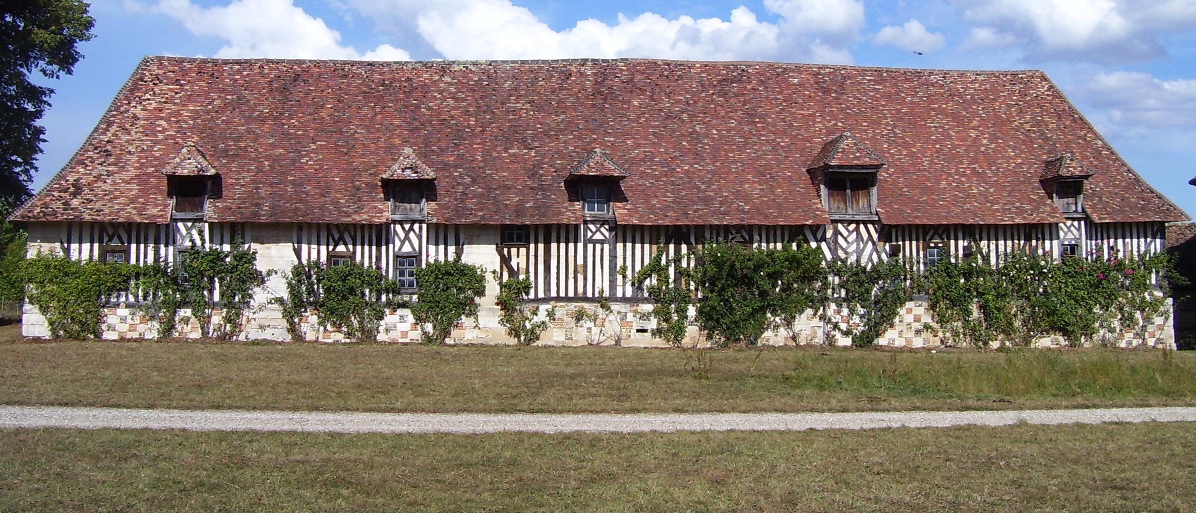 Stable at the castle of Launay, it was built in the 16th century. The whole property except one building is classified as monument historique. The castle of Launay is situated near Saint-Georges-du-Vièvre in the département Eure in the region Normandie of France.